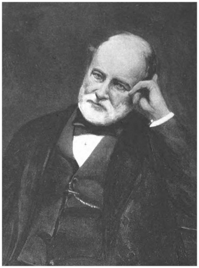 This image was extracted from a volume of Southern Literature